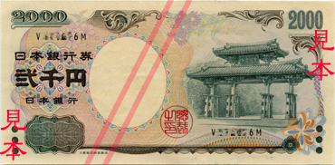 Series D 2000 Yen Bank of Japan note. Shureimon (main gate of Shurei Castle, Okinawa prefecture). First issued in 2000. 154mm x 76mm.